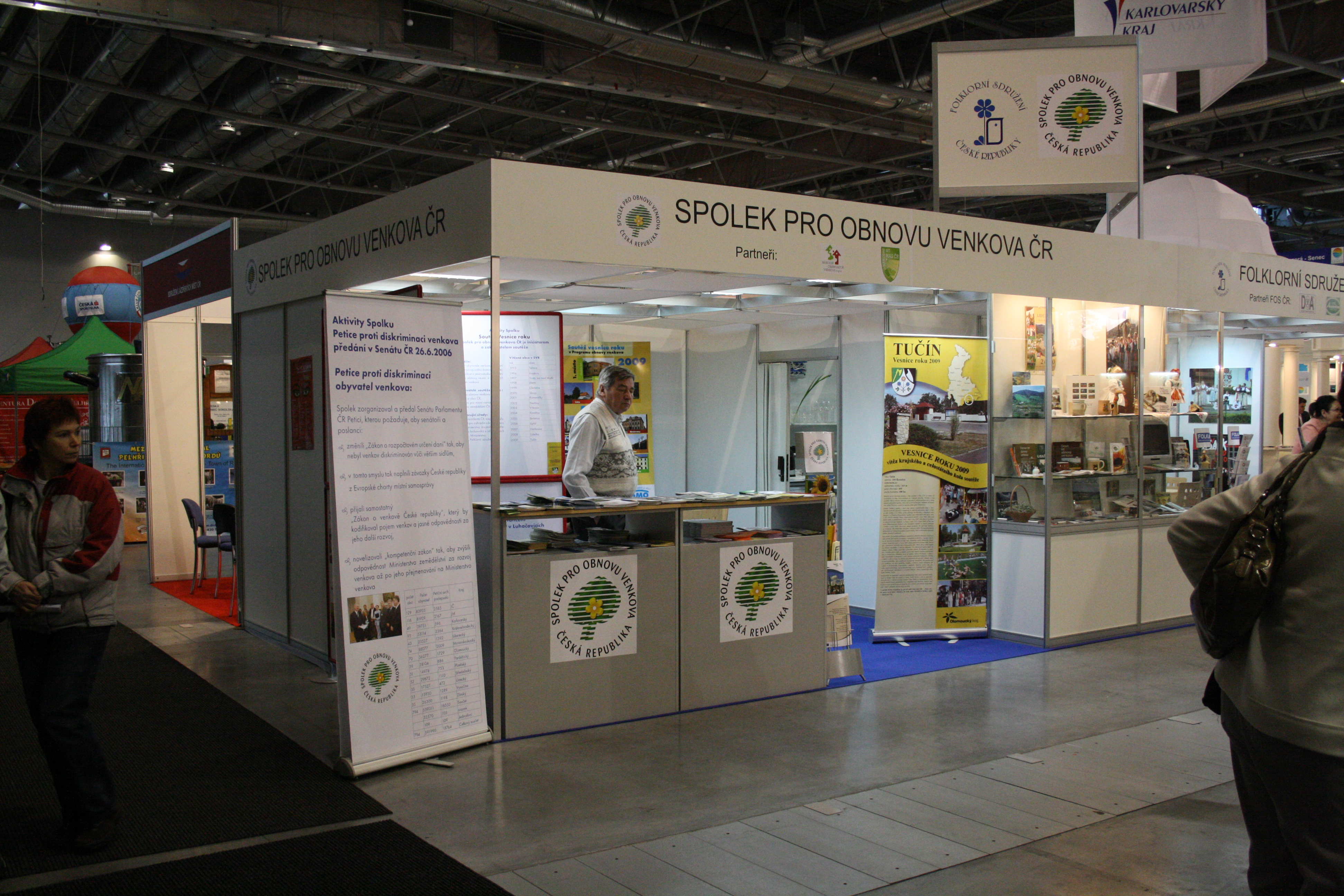 Presentation of various touristic destinations of Czech Republic.